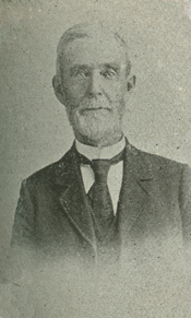 Former United States Representative from Missouri Charles Nelson Clark.